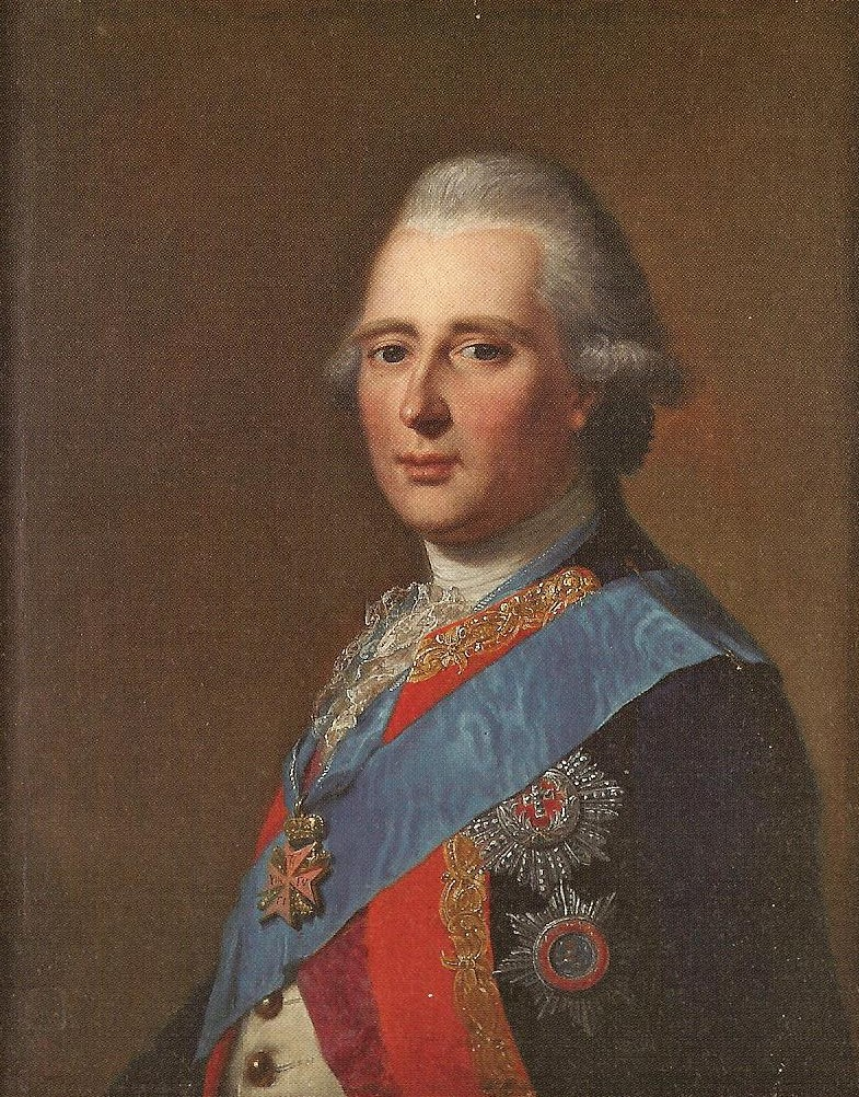 Portrait of Prince Charles of Hesse-Kassel (1744-1836)